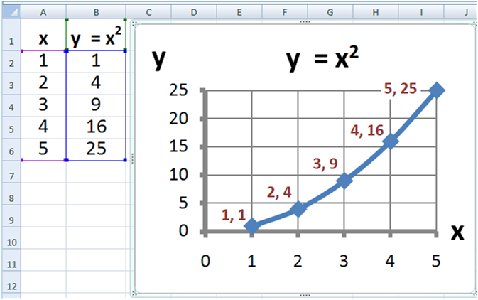 Plot of y=x2 made in Microsoft Excel. All proprietary art work is stripped, leaving a generic graph. Excel is an extremely powerful program used by businesses all over the world. Users with advanced Excel skills are in demand.